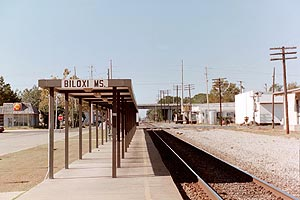 The former Amtrak station in Biloxi, Mississippi.